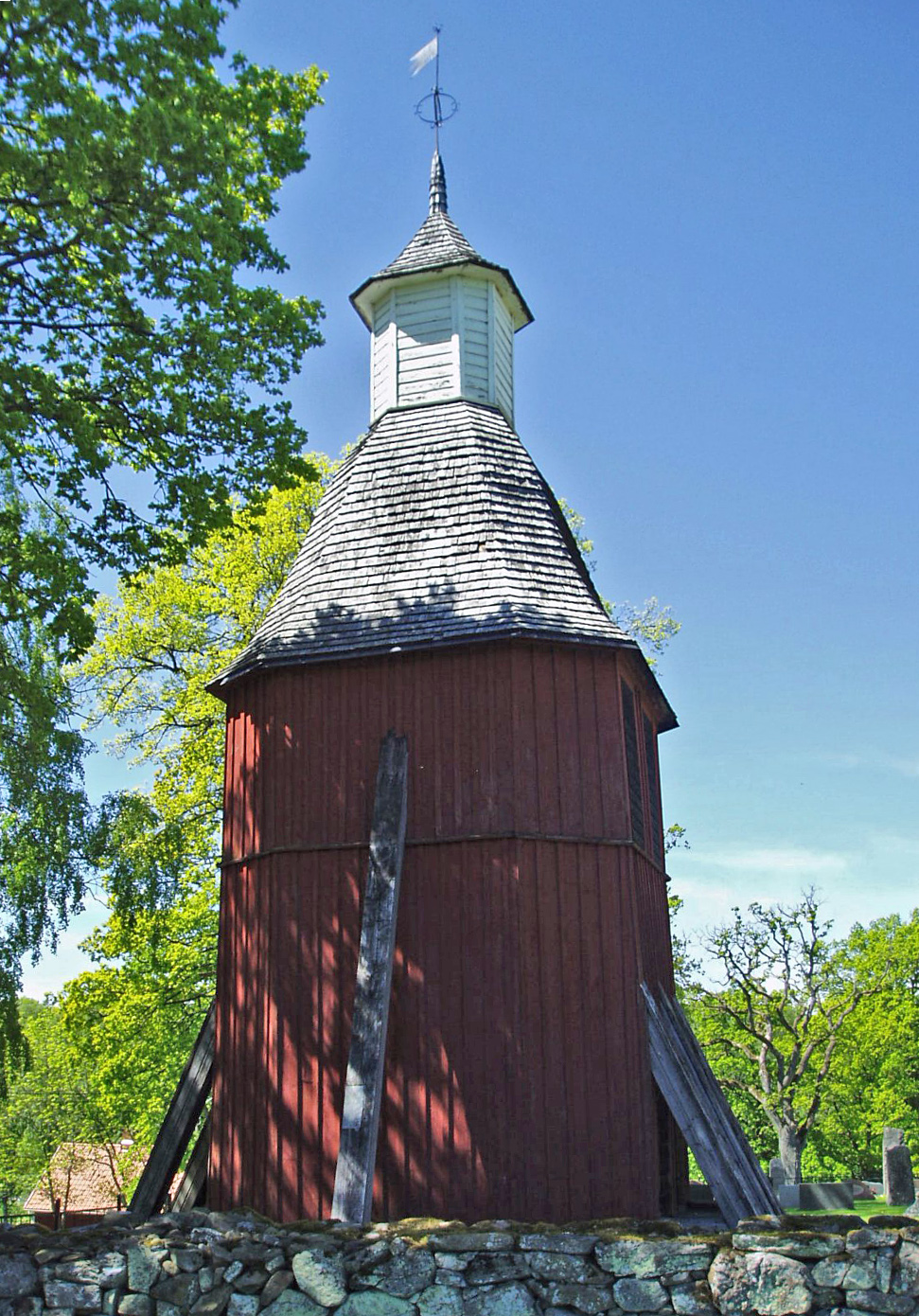 Tower at Dörarps church, Småland, Sweden